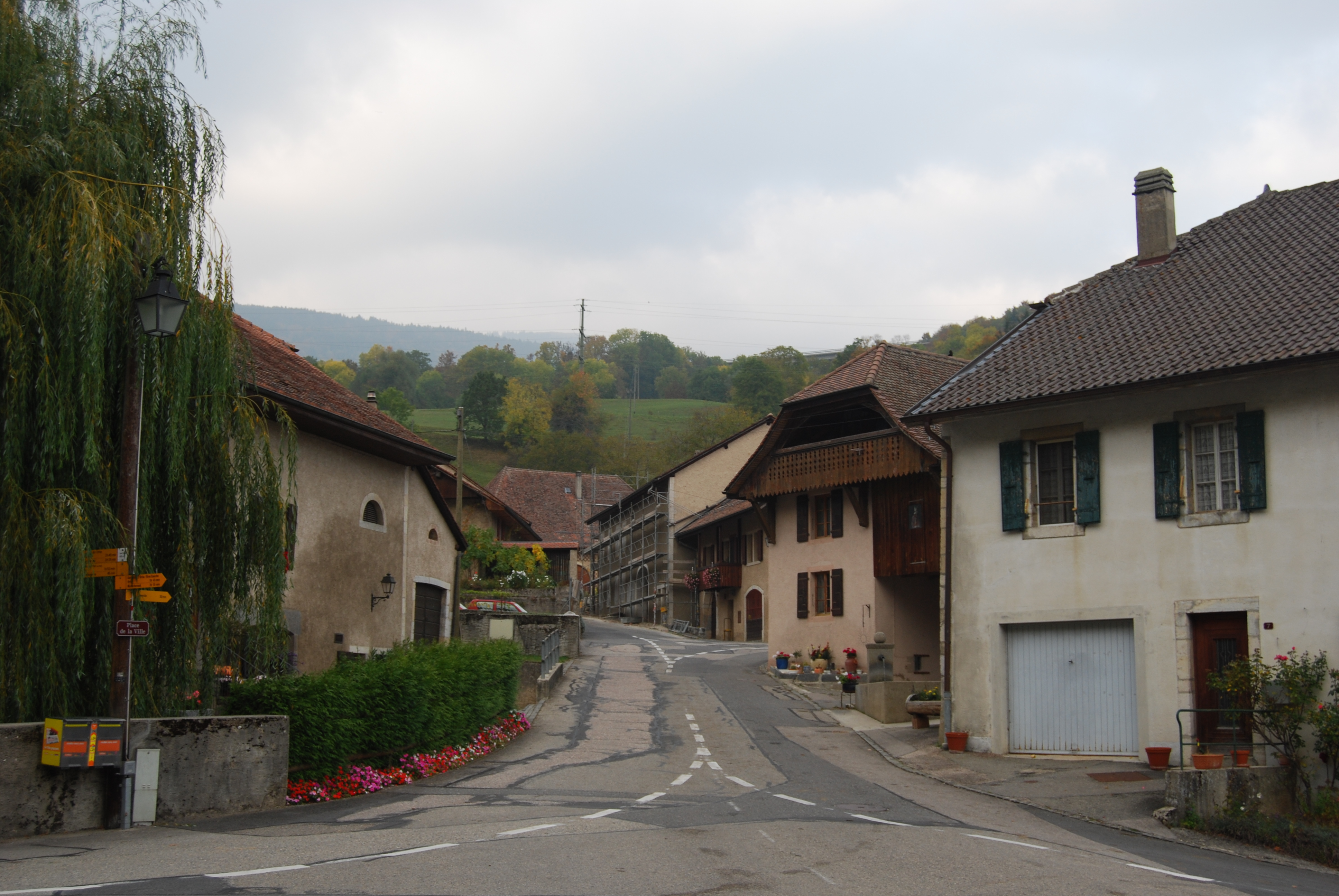 Les Clées, canton of Vaud, Switzerland